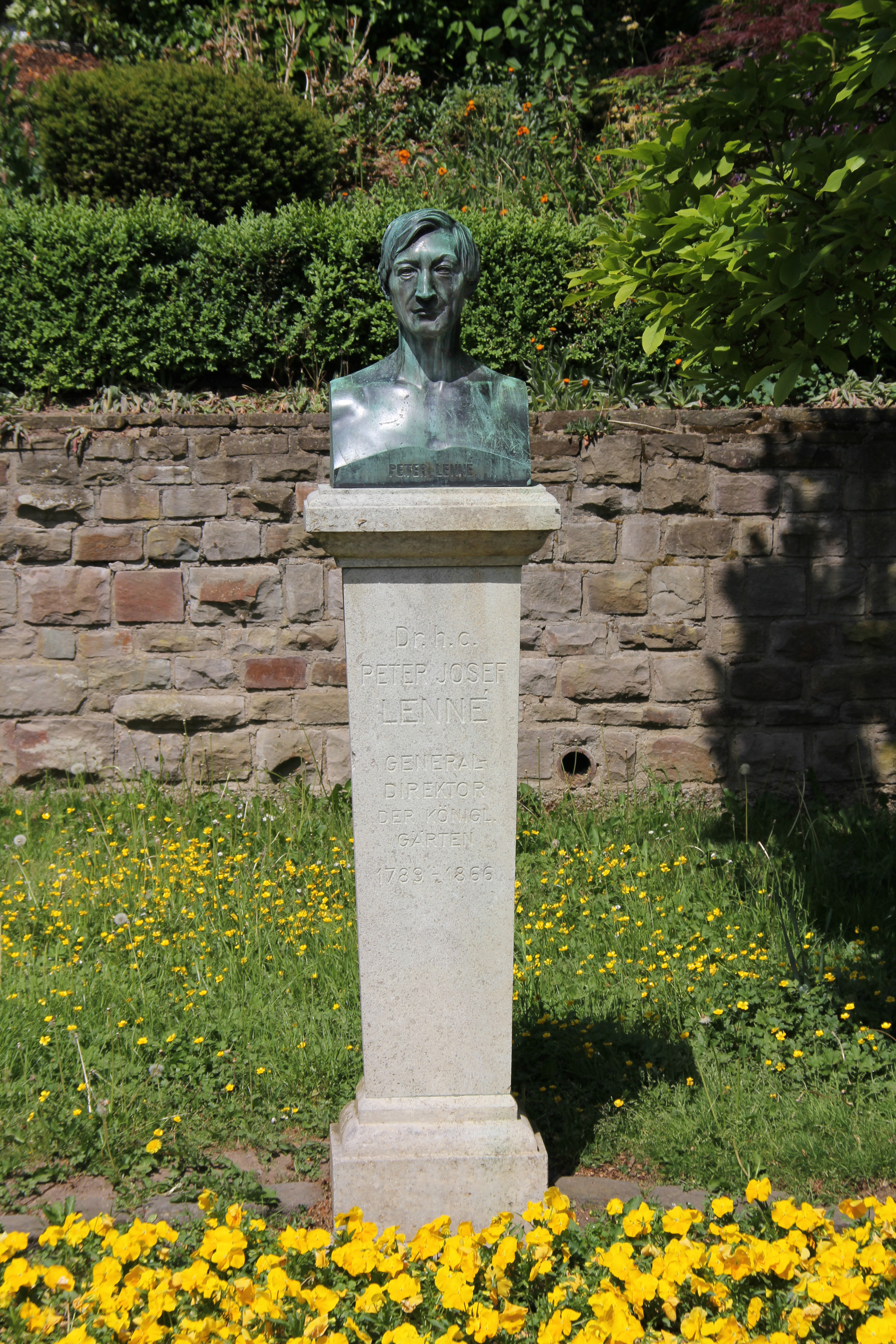 Rhine park in Koblenz